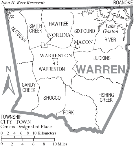 Map of Warren County, North Carolina, United States with township and municipal boundaries